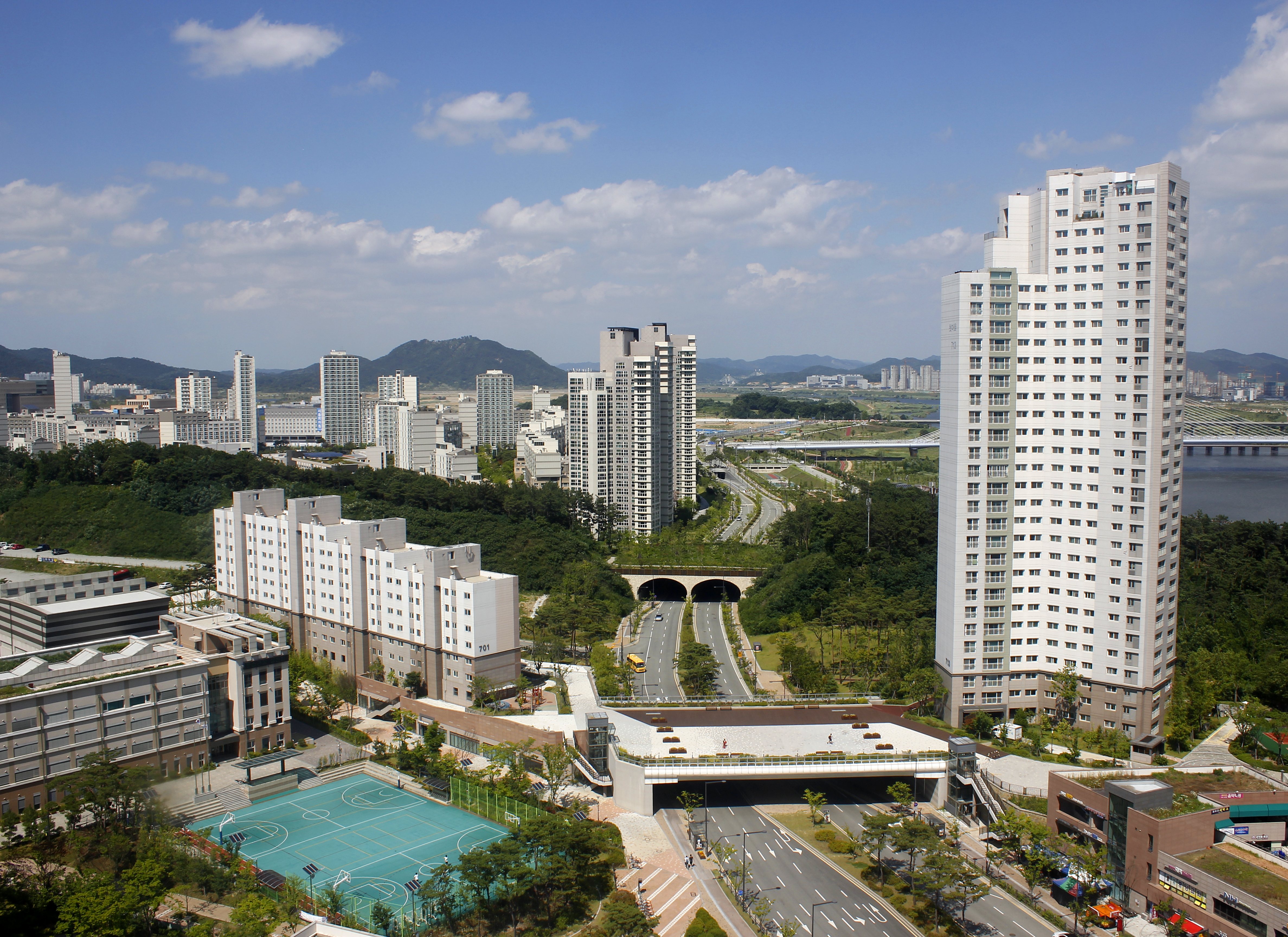 Cityscape of Hansol-dong(District 2-3/Cheotmaeul), Sejong